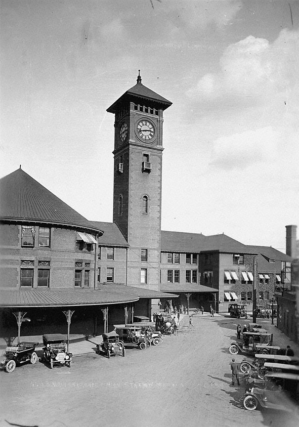 Union Station, in 1913. Oregon Historical Society record number: OrHi 17468